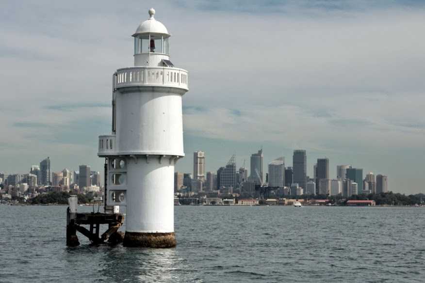 Shark Island Light with Sydney as a backdrop